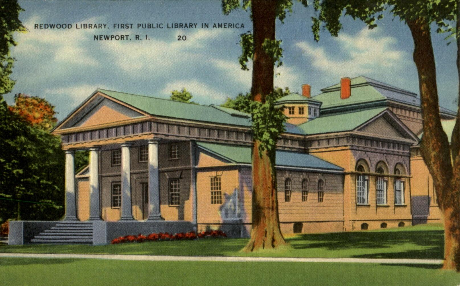 This postcard image is an early 20th century postcard given with the permission of the owner of the digital image and actual postcard: .